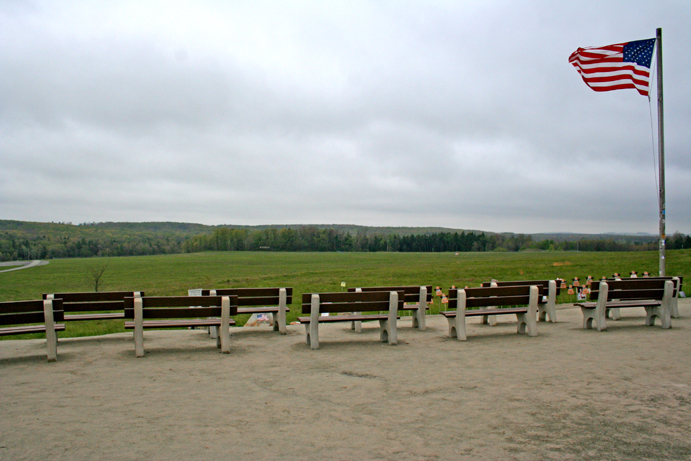 This photo was taken in May 2006 in Shanksville, PA at the site of the United 93 crash that took place on September 11, 2001.